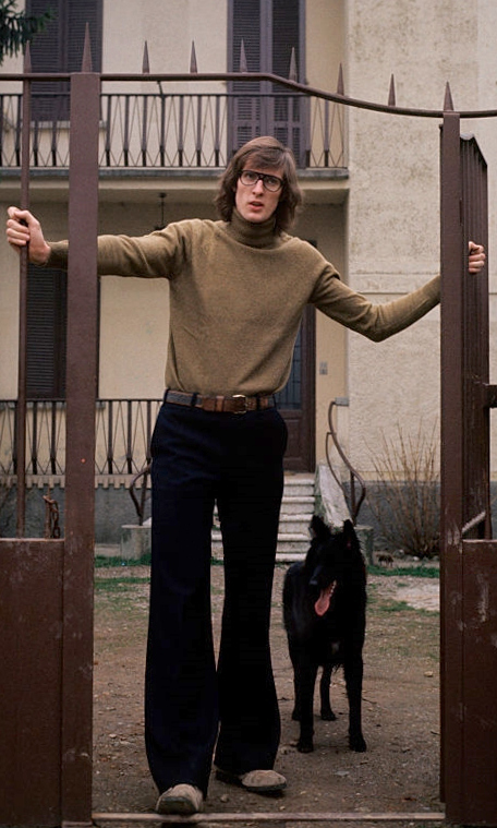 The American basketball player Charles (called Chuck) Jura with his dog in front of the gate of his house. Italy, 1975